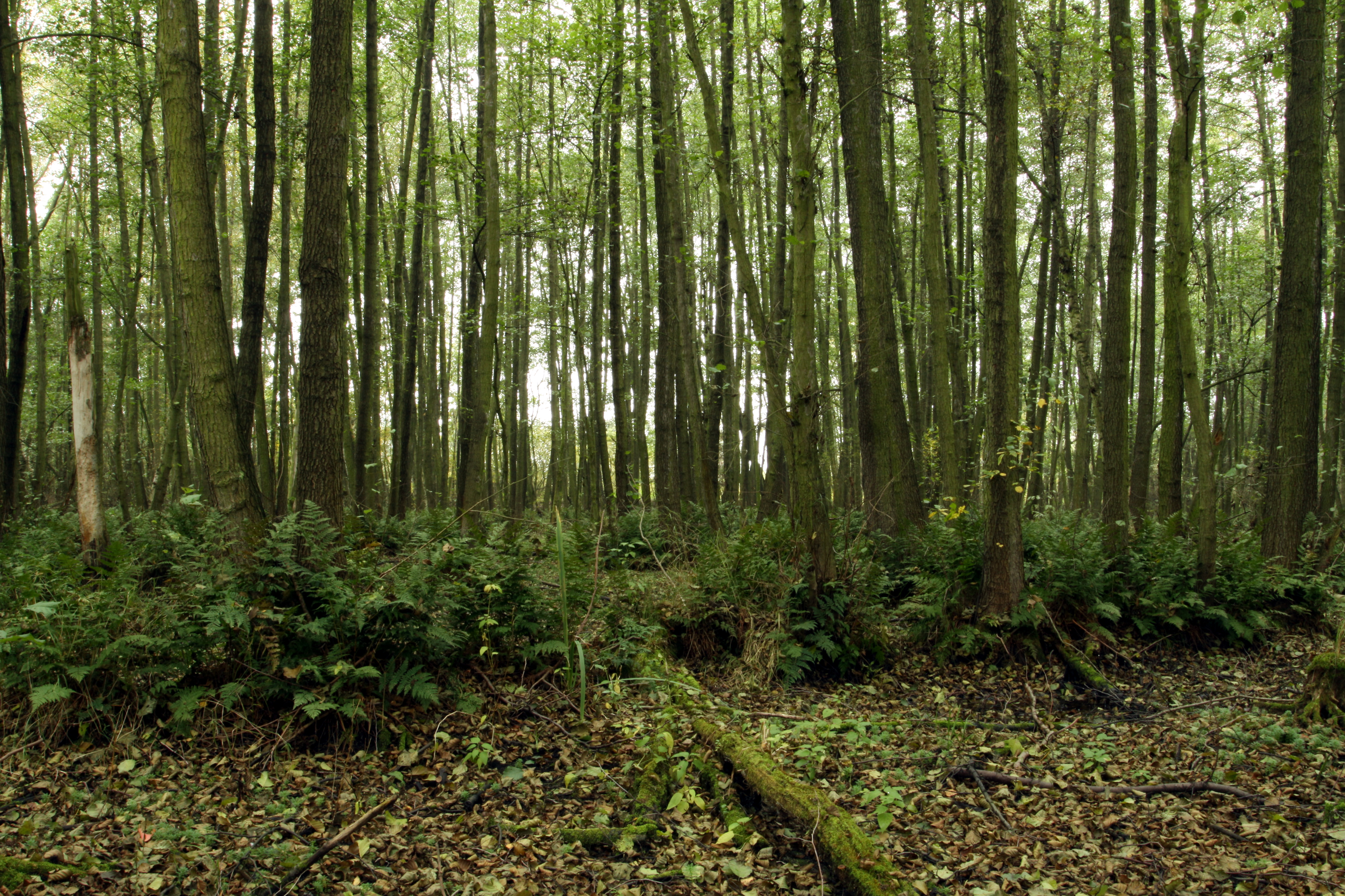 Natural monument Pamětník in Hradec Králové District, Czech Republic - Google Maps - Google Earth